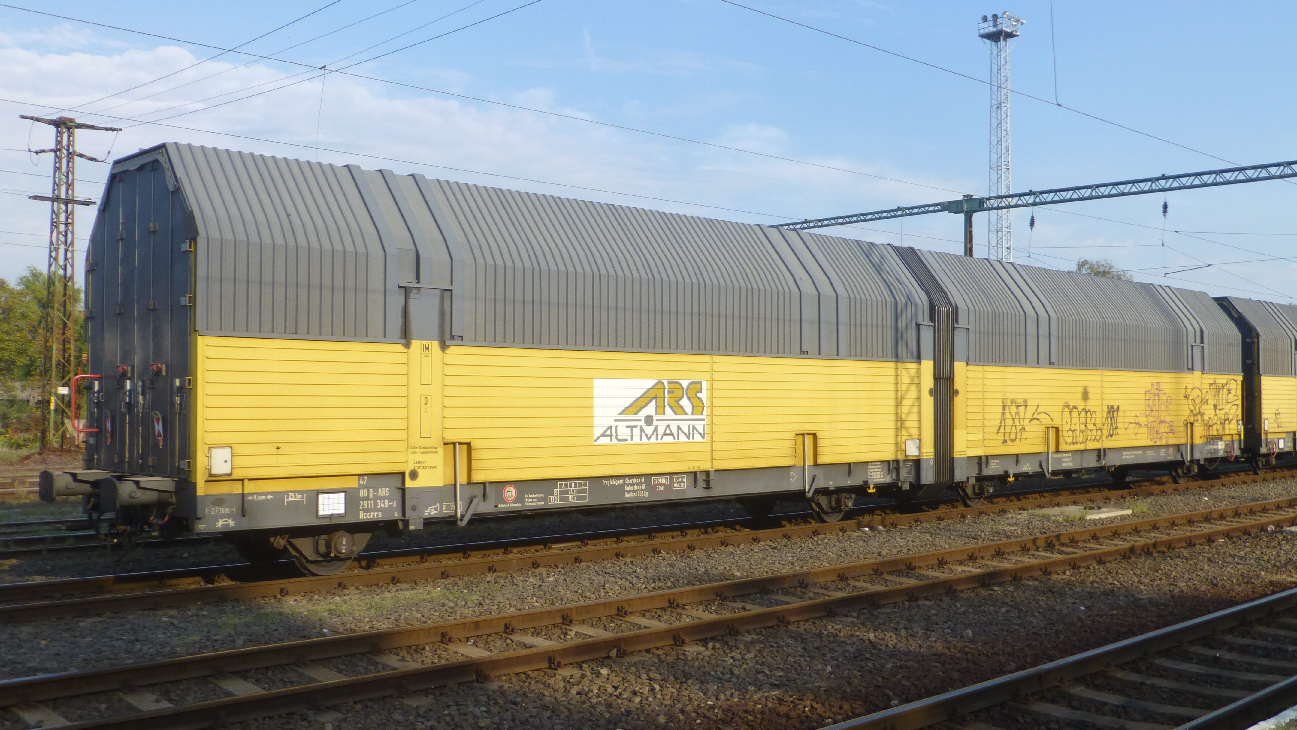 Hccrrs class rail cargo wagon of the ARS ALTMANN in Kecskemét, Hungary. The wagon was built with 10738 factory number in Świdnica, Poland. Key for Hccrrs letter group: H = Special covered wagon cc = Door in end wall and interior equipment for the transportation of motor vehicles rr = more sections s = In circulation according to the European Technical Specification for Interoperability, appendix B, standard s (max speed 100 km/h)